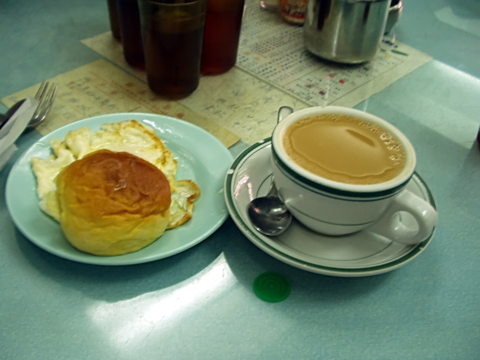 Typical breakfast of Cha Chaan Teng with Hong Kong style Milk Tea